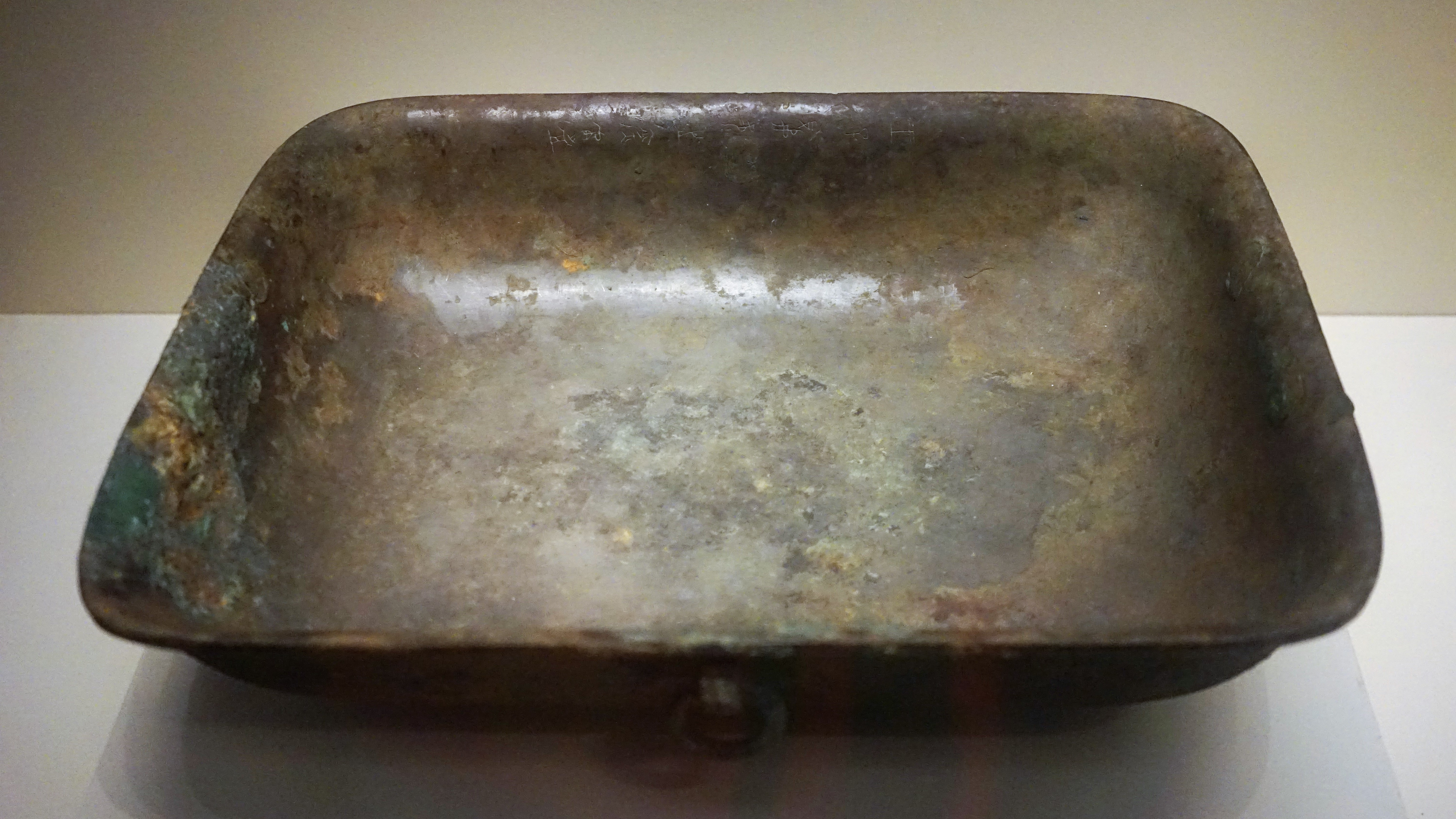 "Wangzi Yingci" Bronze Brazier. Spring and Autumn period, Zheng state. Unearthed at Lijialou, Xinzheng, Henan, 1923. Used for burning charcoal.